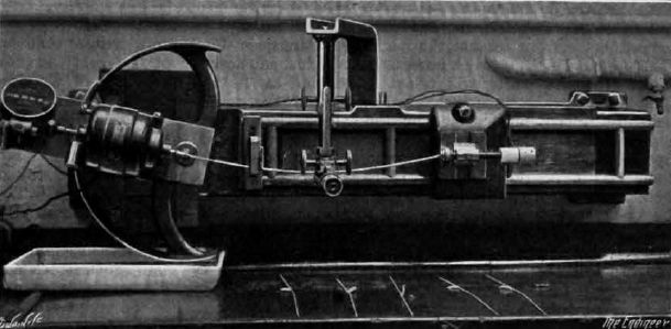 Early design of Haigh-Robertson fatigue testing machine for wire as published in The Engineer, vol. 155, 26 May 1933.